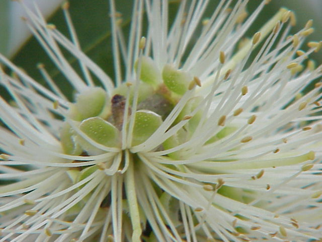 Species: Callistemon pallidus Family: Myrtaceae Image No. 1